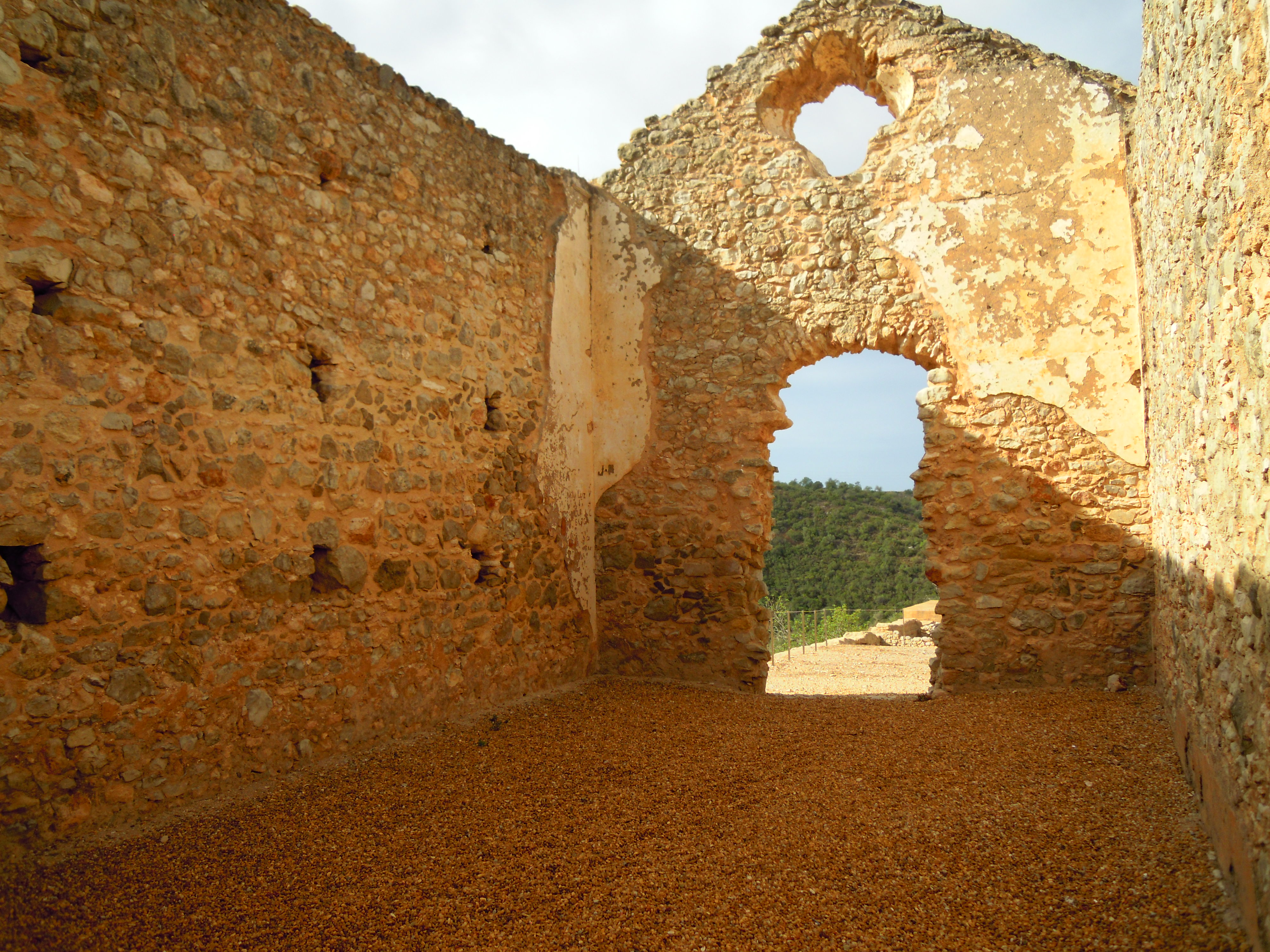 Ruined doorway in south western gable end of chapel of Our Lady of the Assumption, (Ermida da Nossa Senhora da Assunção) which is within the rectangular quadrant of Paderne Castle near the village of Paderne, Algarve, Portugal. The chapel was the main parish church for Paderne until 1506, when a church was built in the centre of the nearby village.